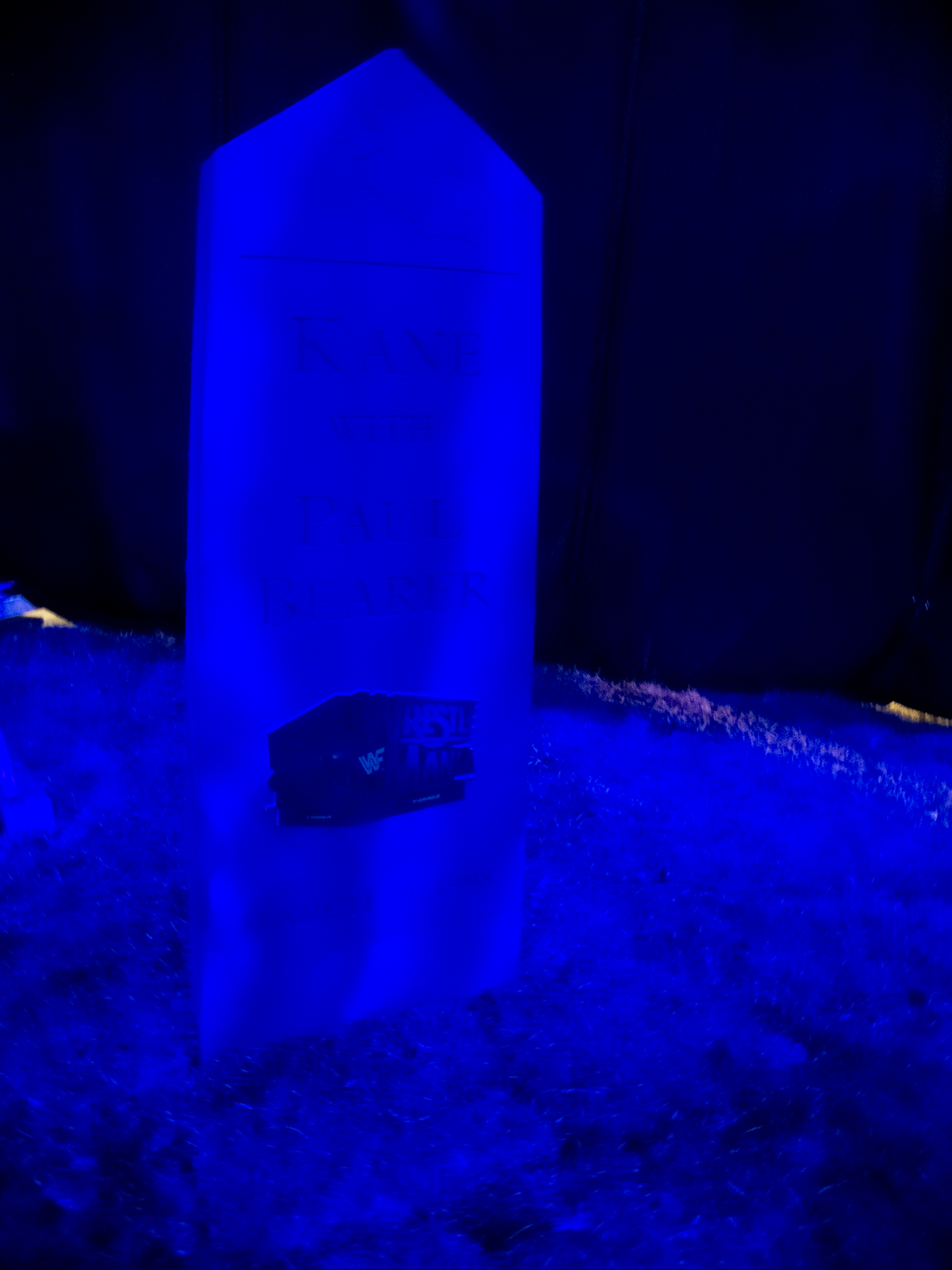 The Undertaker's Graveyard @ Axxess